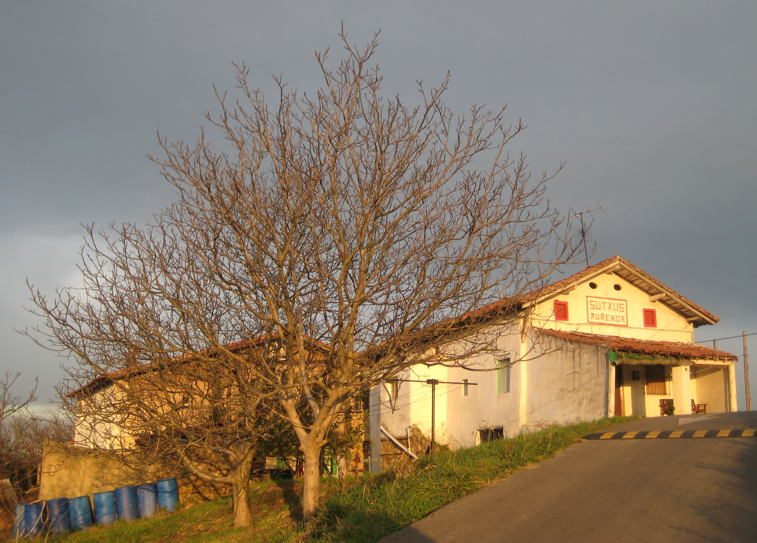 Sutxus-Aurrekoa [1], Sutxus Aur'ekoa or Zuatzuarrekoa farmhouse in Zuhatzu, Peruri, Leioa, Biscay, Basque Country.